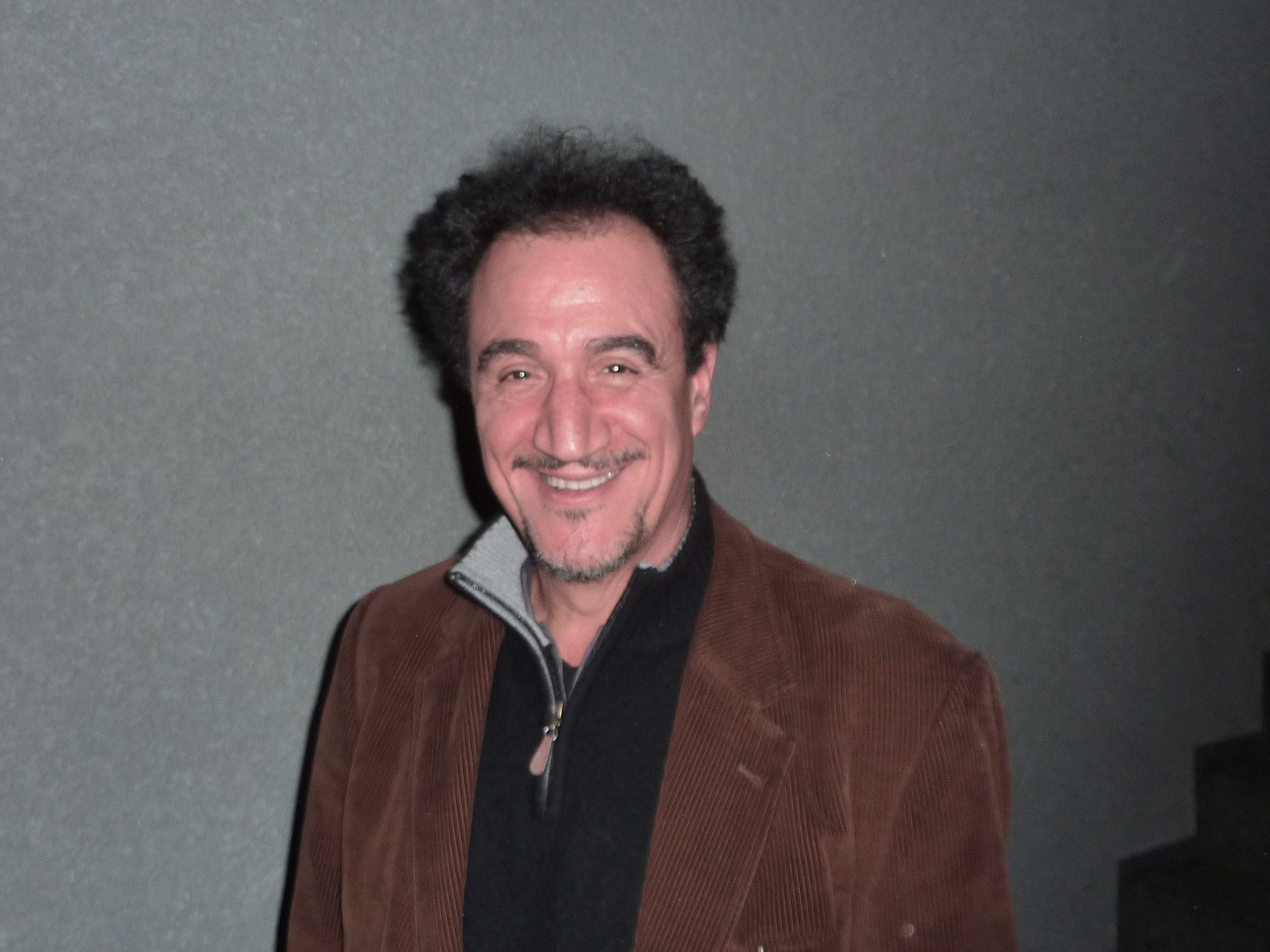 Mohamed Fellag during the premiere of Monsieur Lazhar in Geneva in 2012.